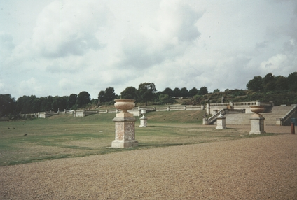 The Crystal Palace: Upper Terrace and What was the Italian Gardens (1993)